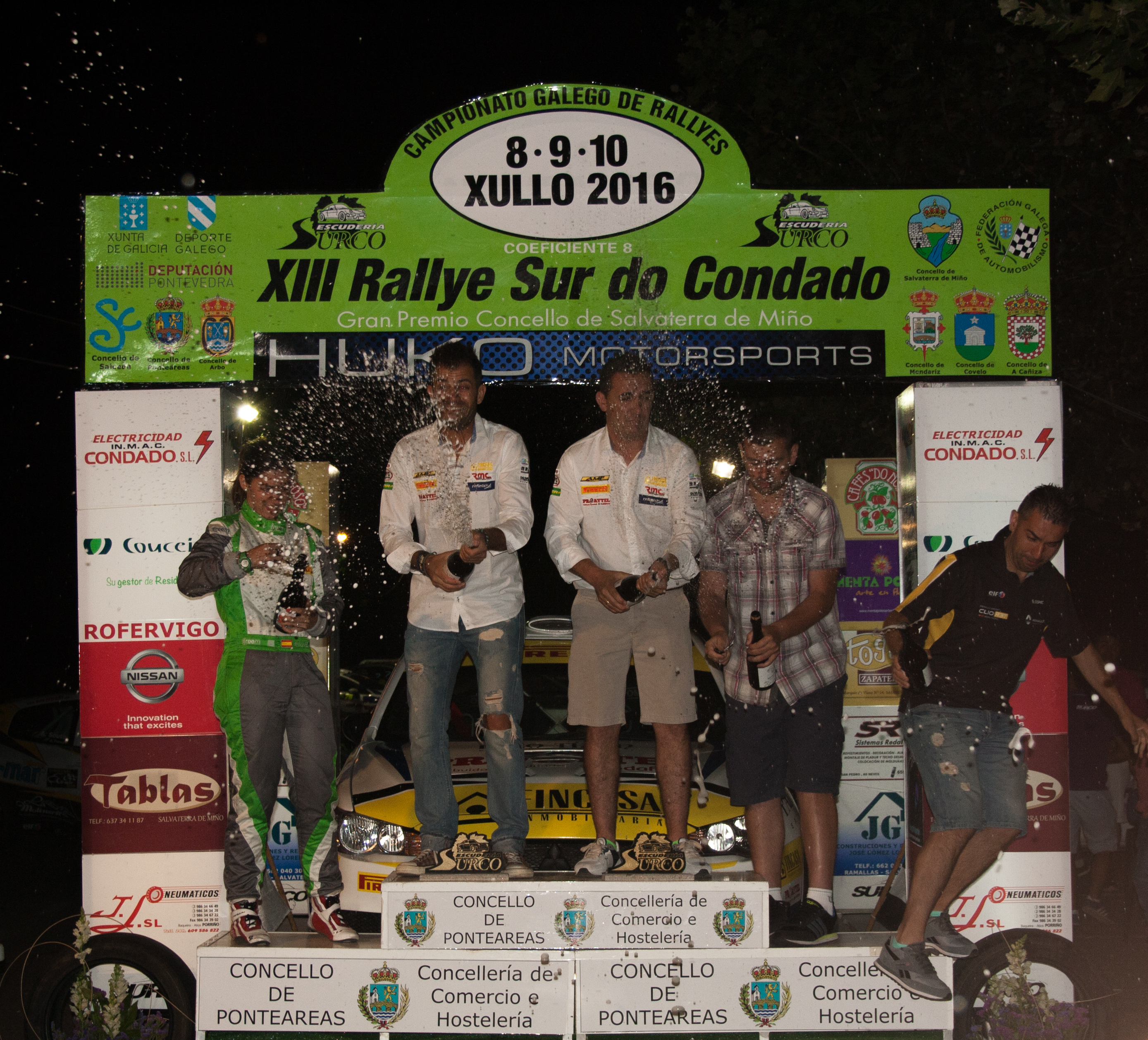 Podium, Aberto Meira, Macias and Jorge Pérez in Rally Sur do Condado